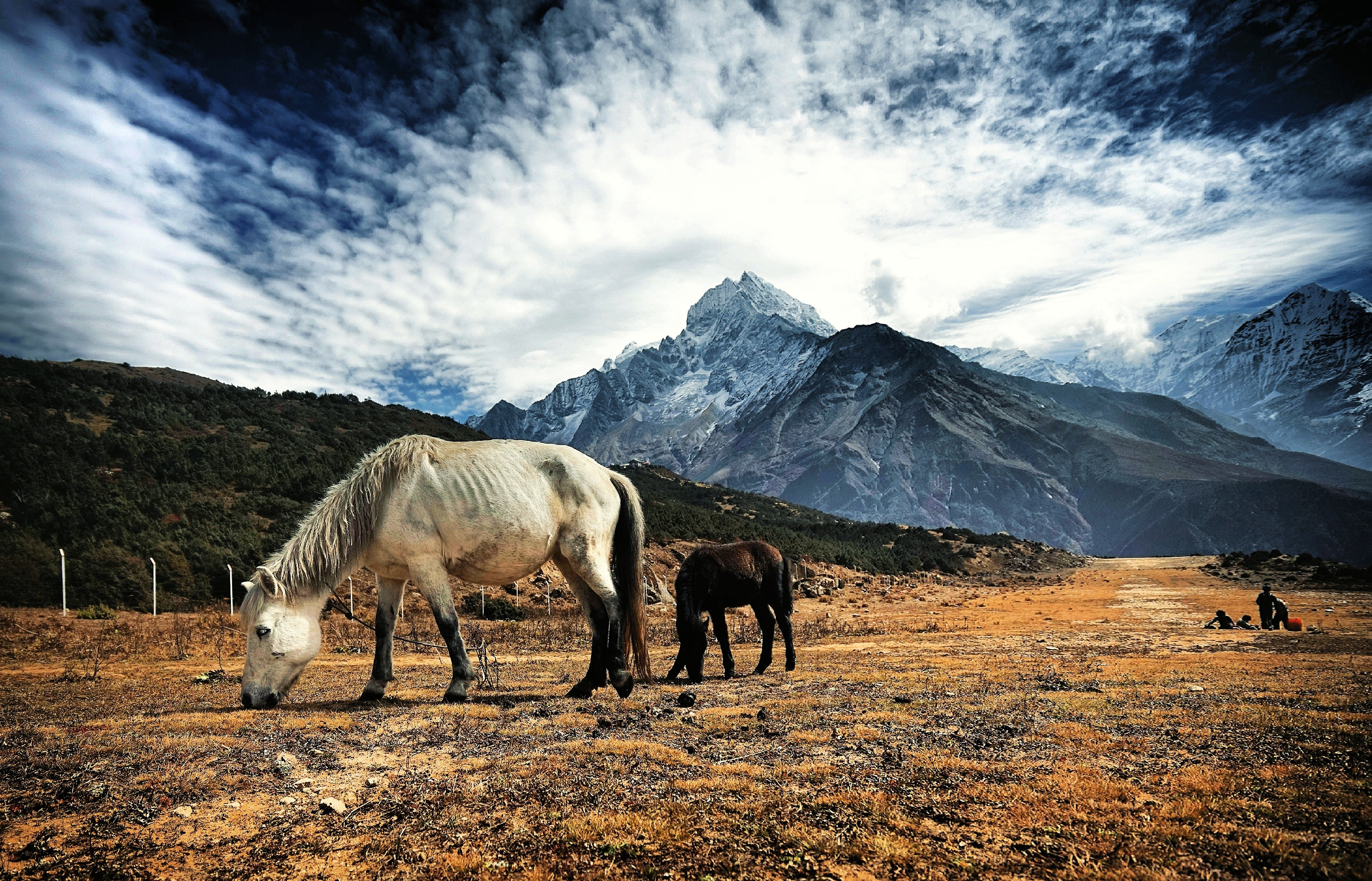 This is an unpaved airstrip serving the village of Namche Bazaar and still not licensed for commercial operation. This is the closest airstrip to Mt. Everest. Mt. Thamserku can be seen in the background. Everest region, Nepal